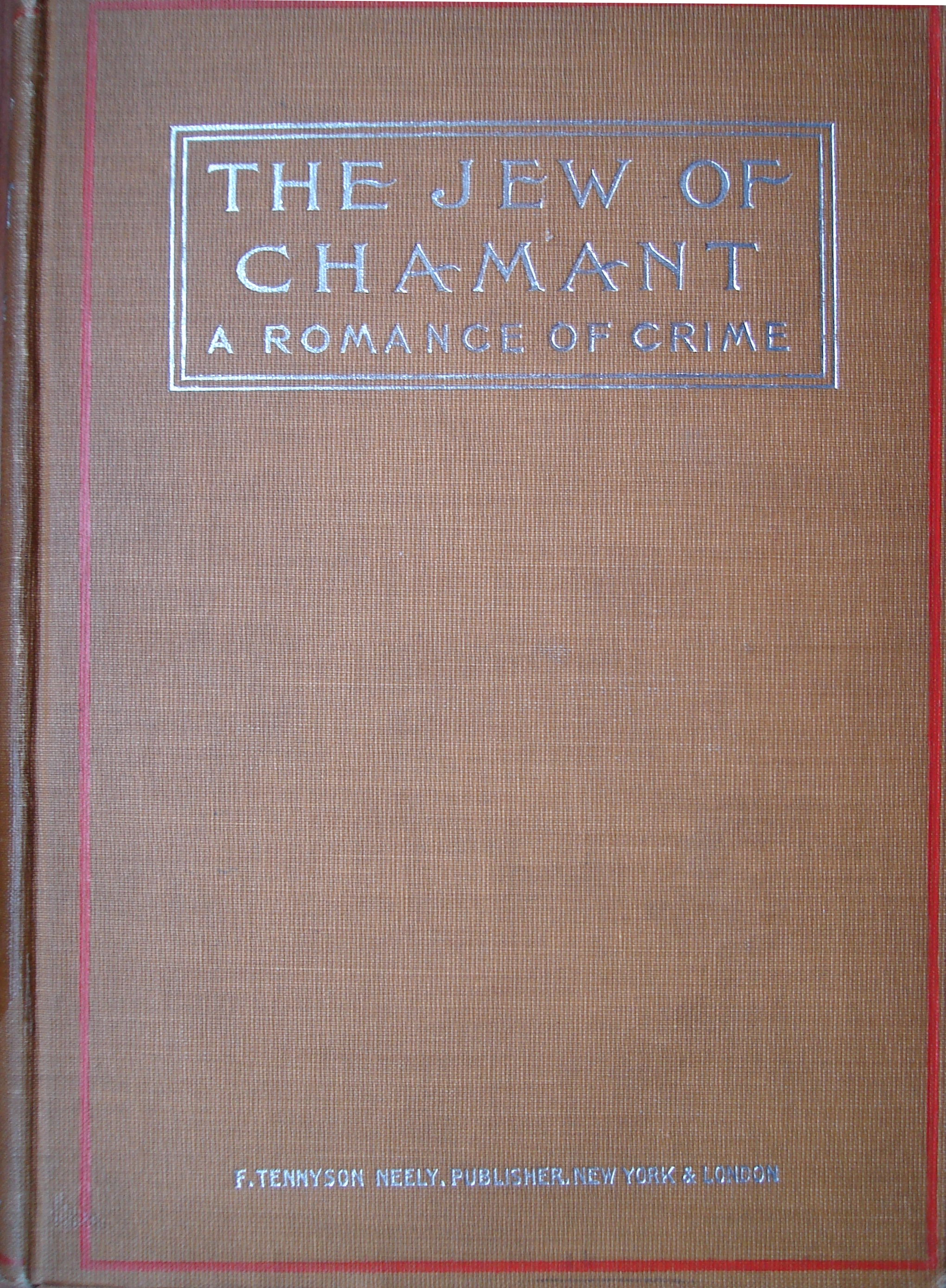 Photograph taken by me of front cover of the book "The Jew of Chamant" by Ivan Trepoff, the pseudonym of George H. D. Gossip (died 1907 - see Featured Article on English Wikipedia). The designer of the cover is unknown. Copyright 1899 by F. Tennyson Neely (the publisher) in the United States and Great Britain.